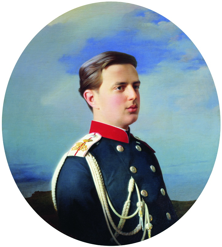 Grand Duke Vladimir Alexandrovich of Russia